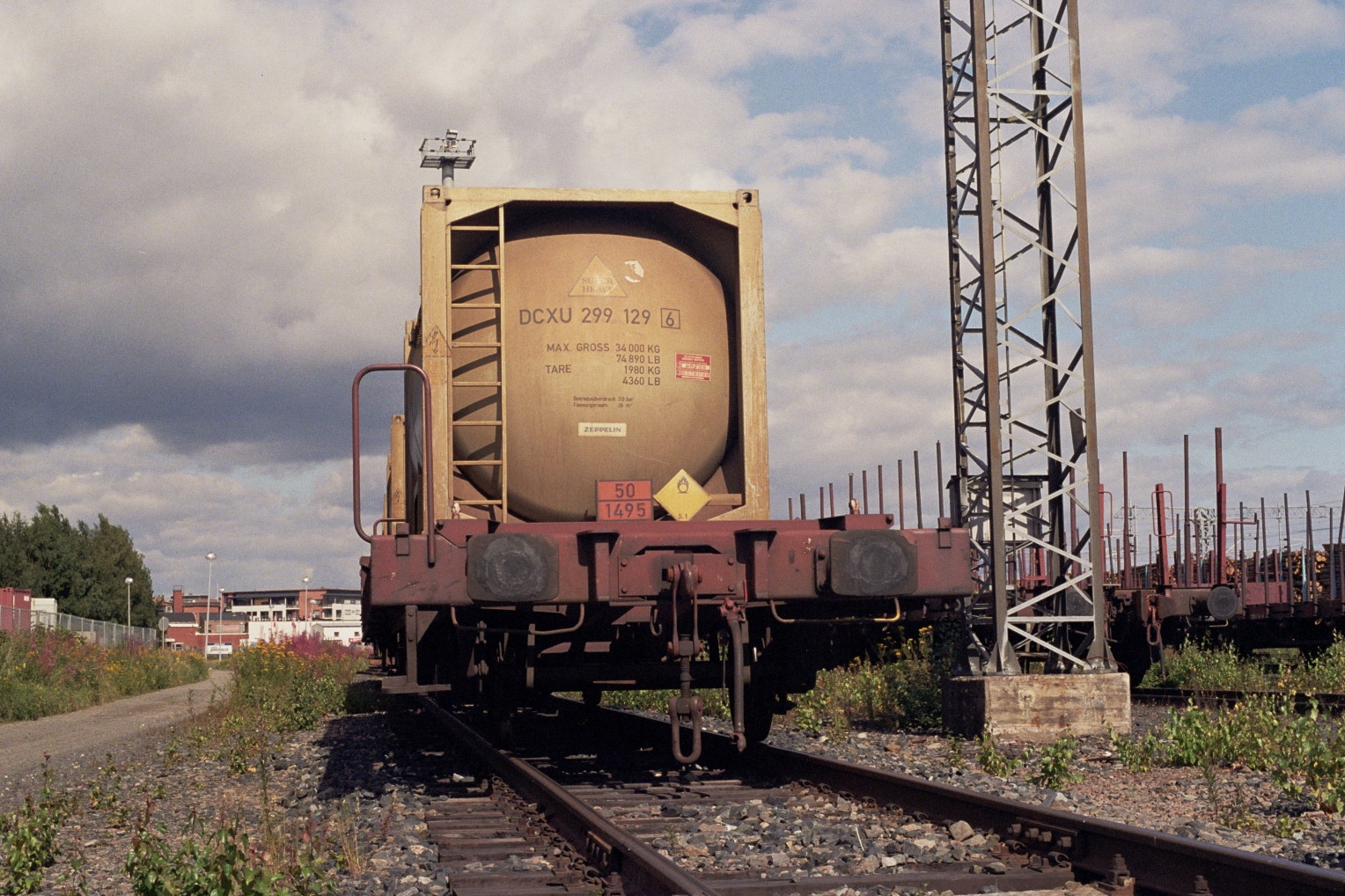 A railway wagon carrying a tank container in the VR freight yard in Oulu, Finland.